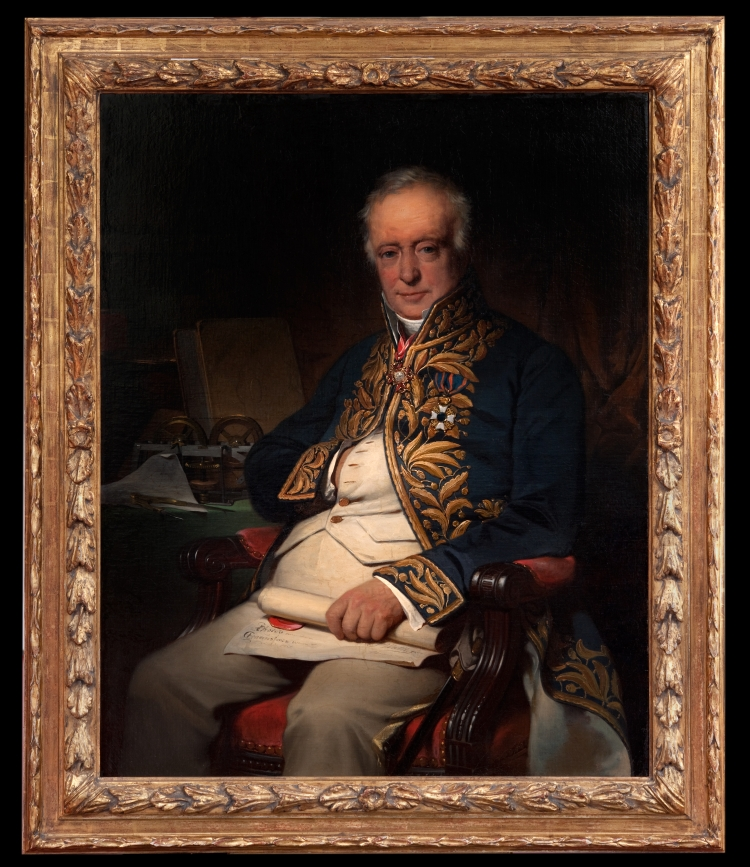 Geschilderd portret van A. Lipkens, eerste directeur van de Koninklijke Akademie voor Civiel Ingenieurs (1842-1846).